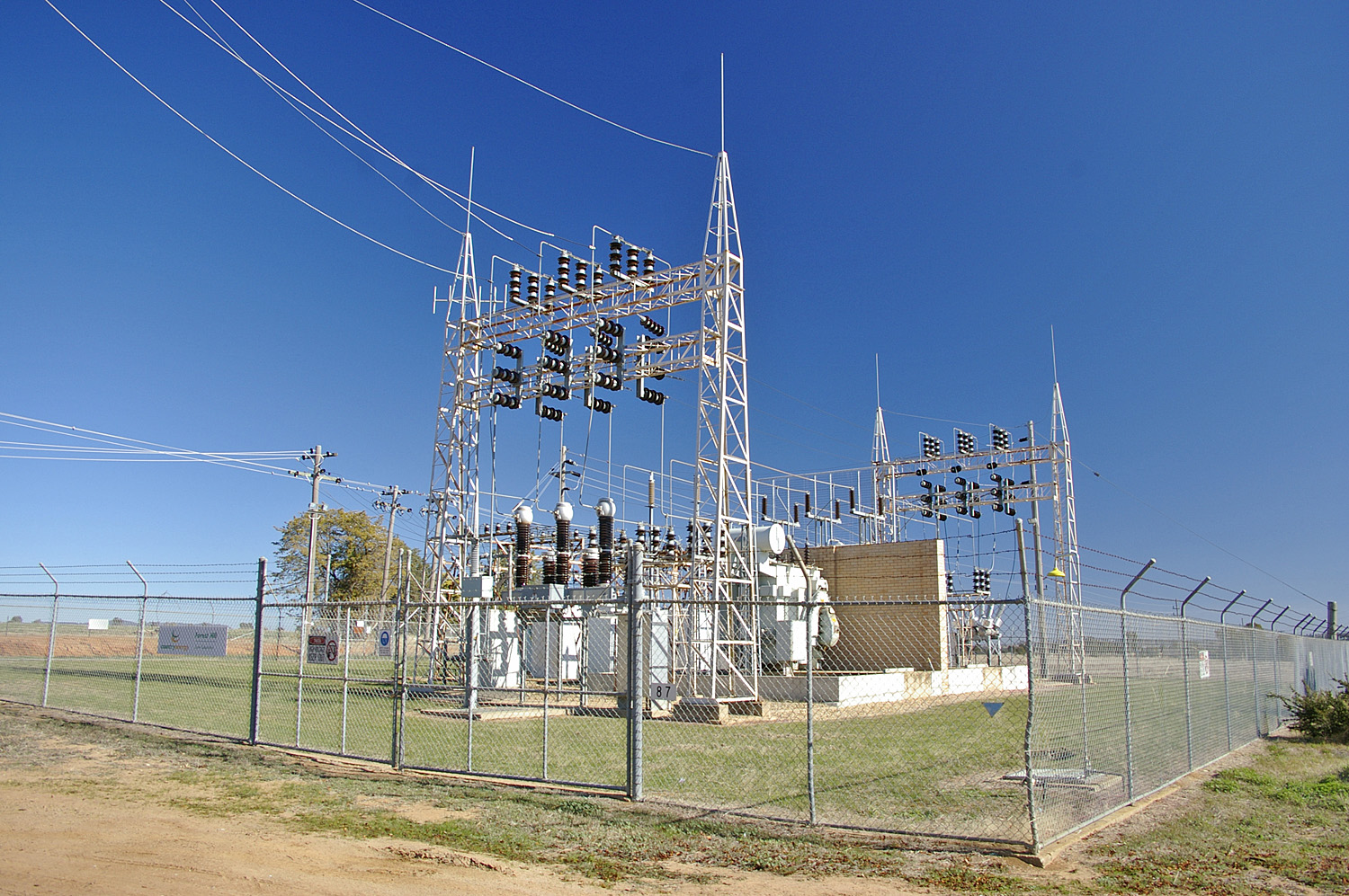 Forest Hill Substation